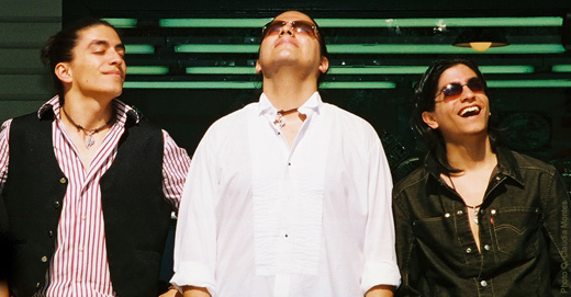 The Villalobos Brothers in Dollywood Tennessee